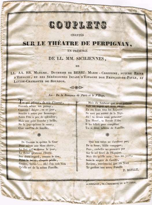 Poem by J. Batlle printed on silk (Perpignan: imprimerie Tastu, 1829)